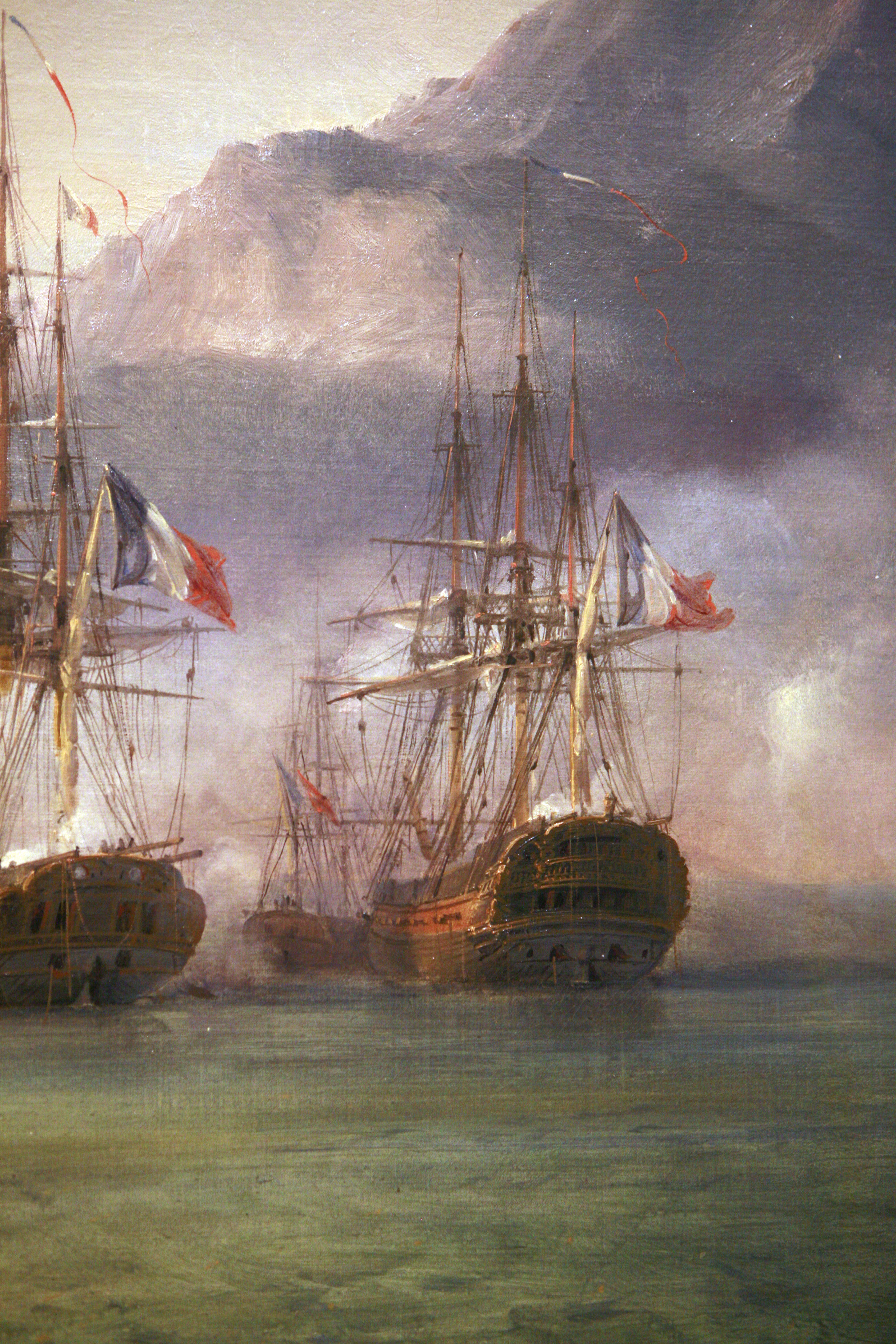 Detail of Battle of Grand Port: From left to right: French frigate Minerve, Victor (background) and CeylonOil on canvasCollection Musée national de la Marine Native nameMusée national de la MarineLocationParisCoordinates48° 51′ 43″ N, 2° 17′ 15″ E Established1827Web page control : Q1286709 VIAF: 19144648200974718522 ISNI: 0000 0001 2259 2914 LCCN: n50055356 Museofile: M5026 WorldCat institution QS:P195,Q1286709Source/Photographer Rama